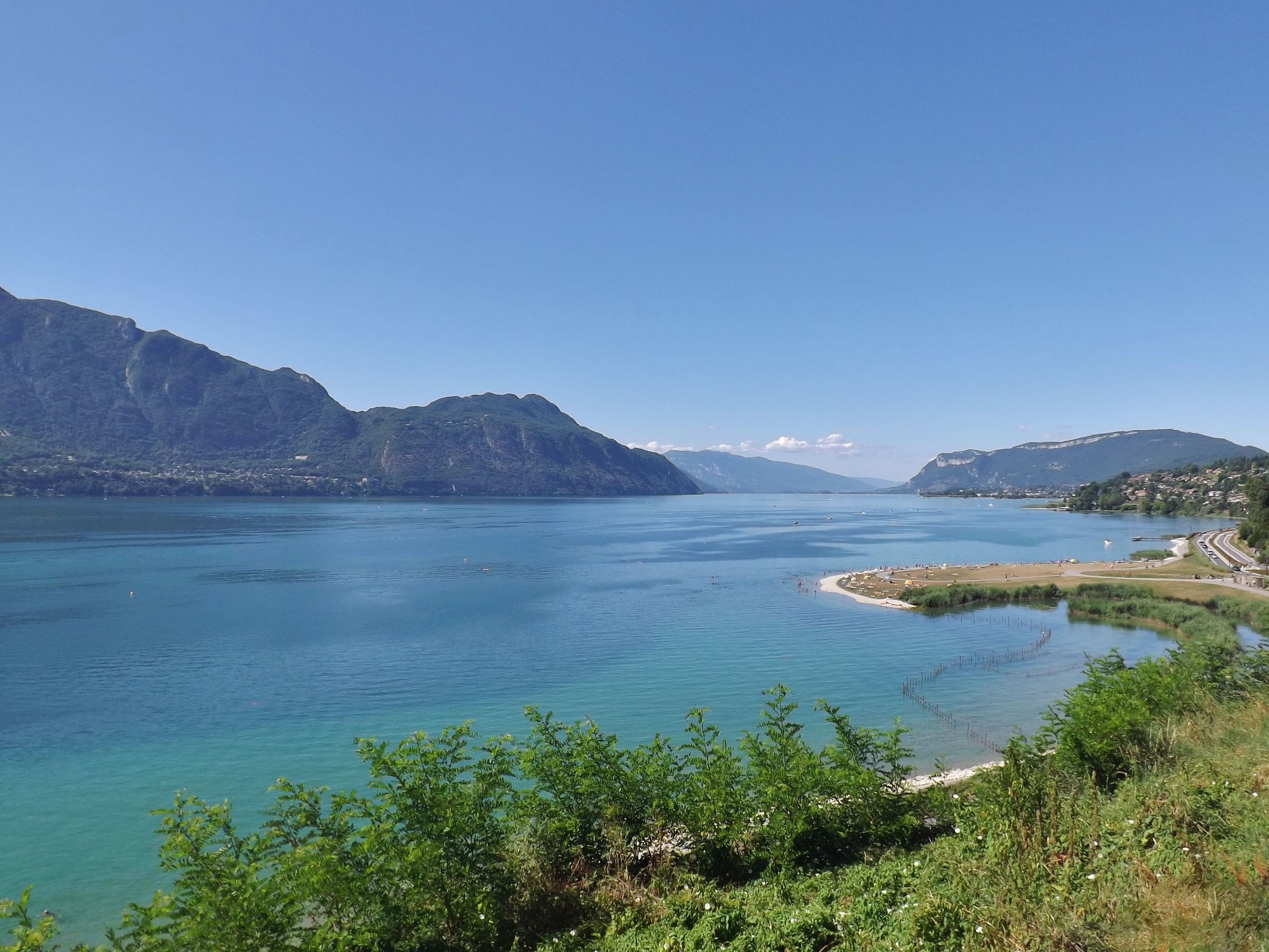 Landscape, from the Grande Mollière viewpoint at Viviers-du-Lac, of the lac du Bourget lake and the Cap des Céselets cape on the right, in Savoie, France.